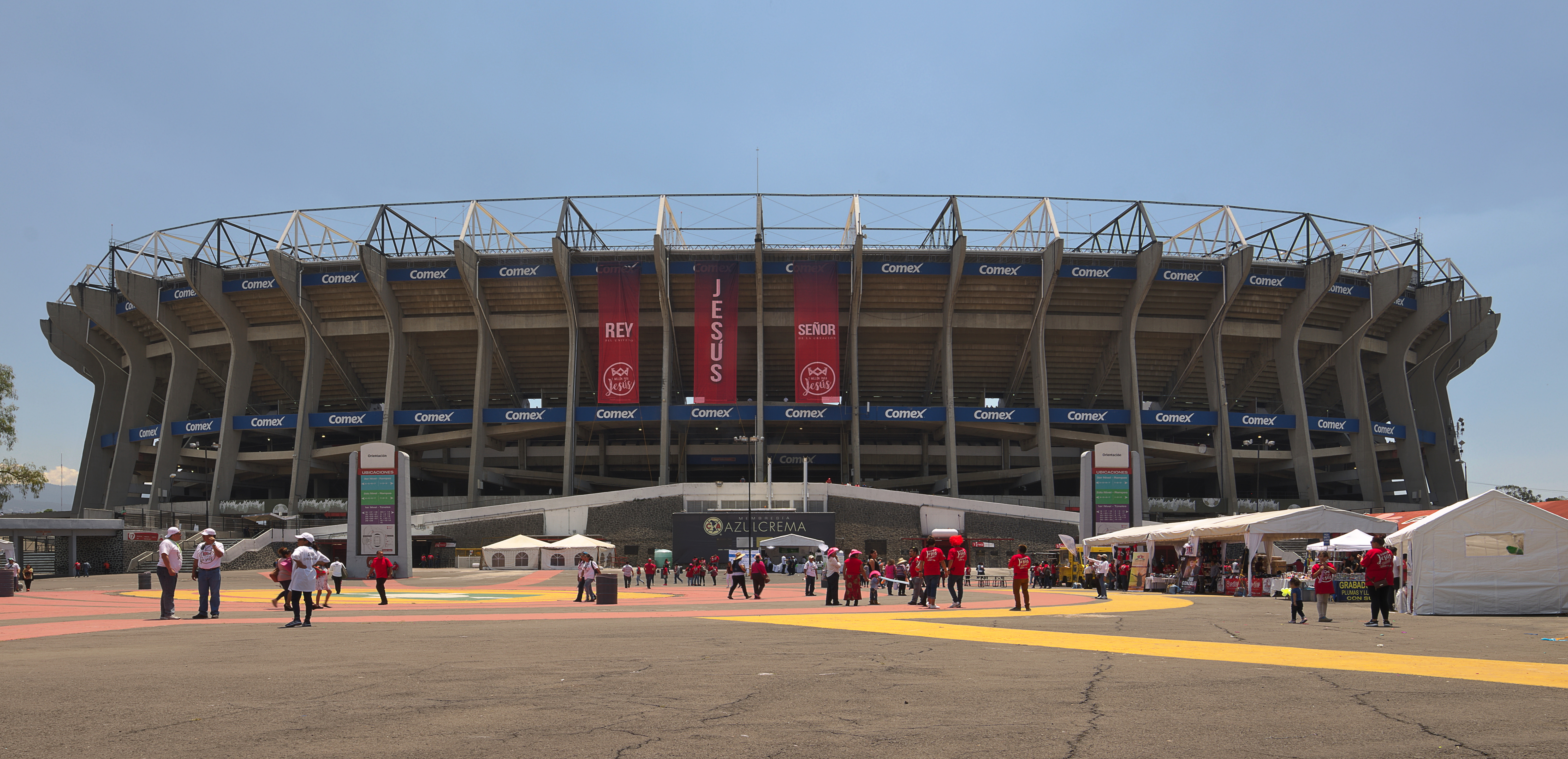 Azteca Stadium, Mexico City, with the banners of the One Million for Jesus Event